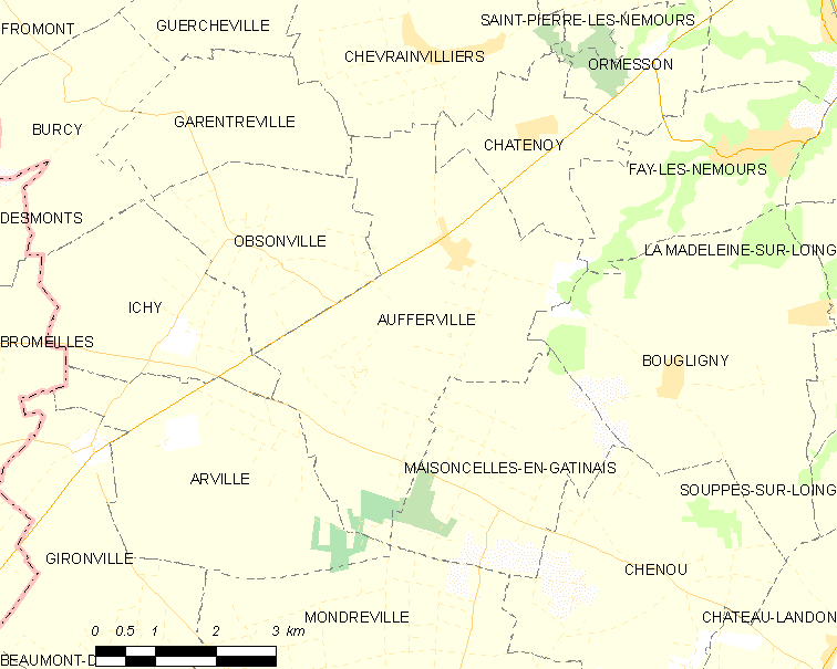 Map of French municipality Aufferville